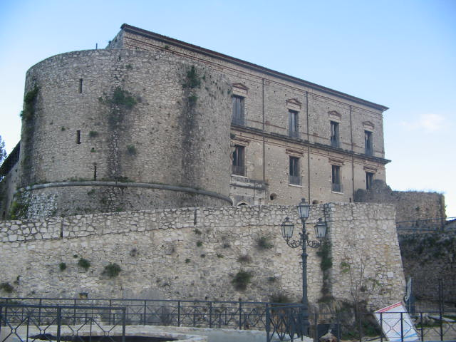 A view of the castle of Teggiano